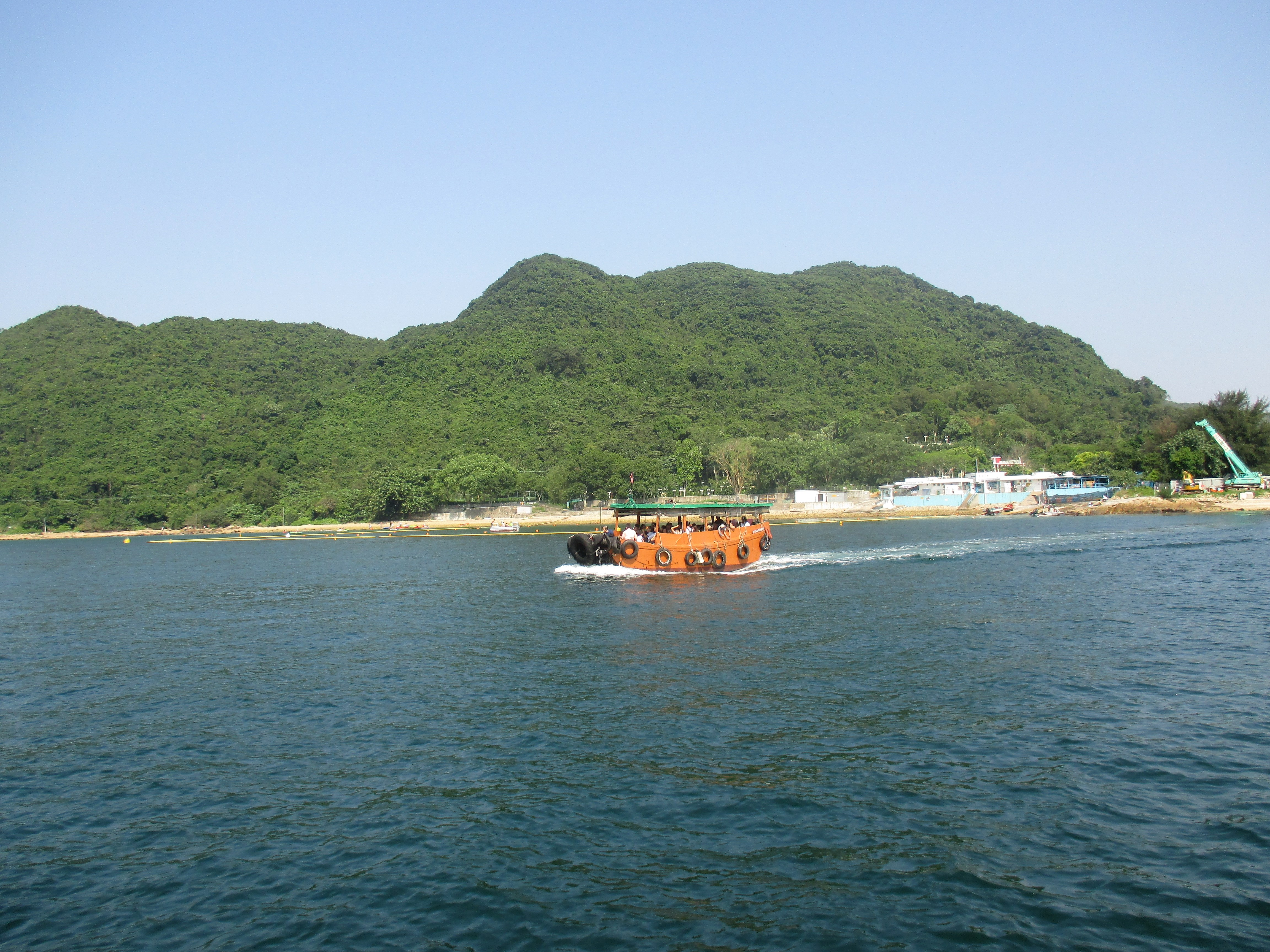 Kiu Tsui Beach